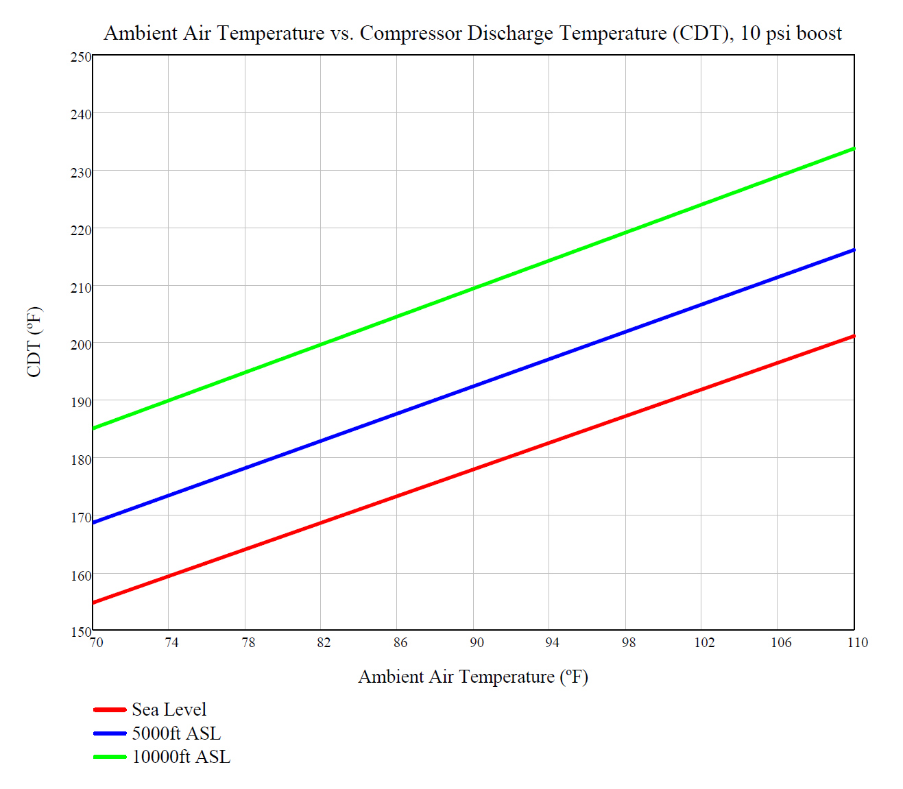 This is a graph showing the compressor discharge temperature vs. ambient temperature for 10 psi of boost. The red line is at sea level (14.696 psia), the blue dotted line is at 5000 ft above sea level (12.23 psia), and the green dashed line is at 10,000ft above sea level (10.11 psia). Notice that as elevation increases, the CDT increases noticeably for the same ambient temperature.